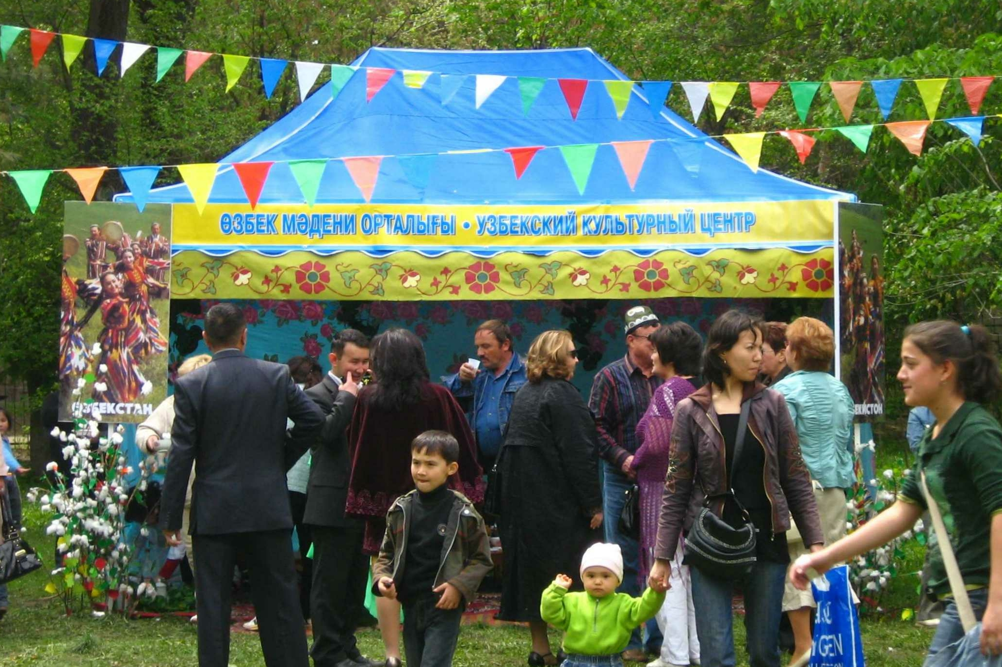 The exhibition of Uzbek cultural center in Almaty, Kazakhstan.